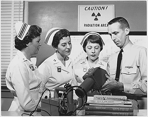 Nuclear Nursing - Chief Hospitalman Lee Jones, U.S. Navy, of Silver Spring, Maryland, demonstrates radiation survey instruments used to measure the presence of radioactivity, as part of the nuclear nursing course at the National Naval Medical Center, Bethesda, Maryland. The nurses left to right are: Lieutenant Commander Anne Check, Perth Amboy, New Jersey; Lieutenant Margaret M. Smith, Riverdale, New York, and Lieutenant Lina D. Murasheff, Richmond, California, 12/29/1958